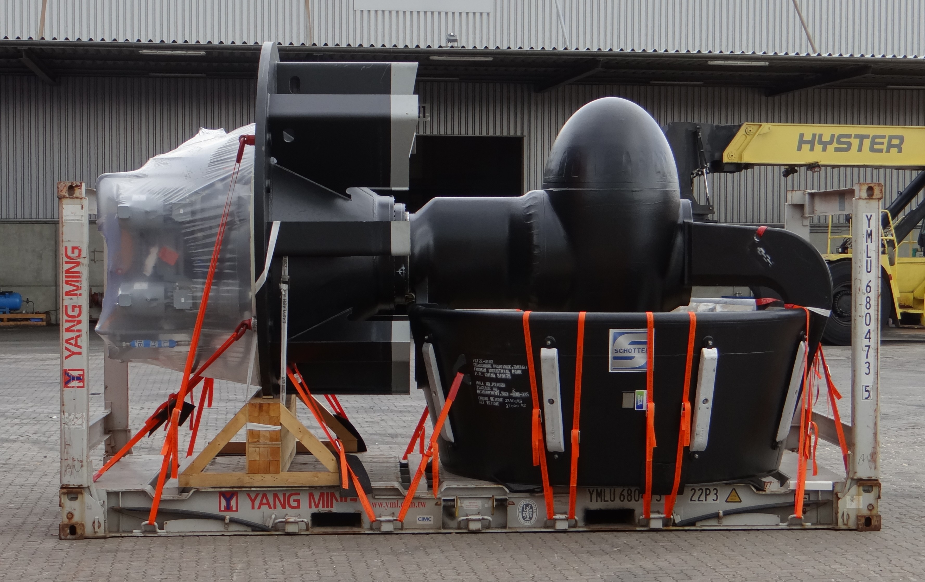 Schottel azimuth thruster for Export. Hamburg, Germany.